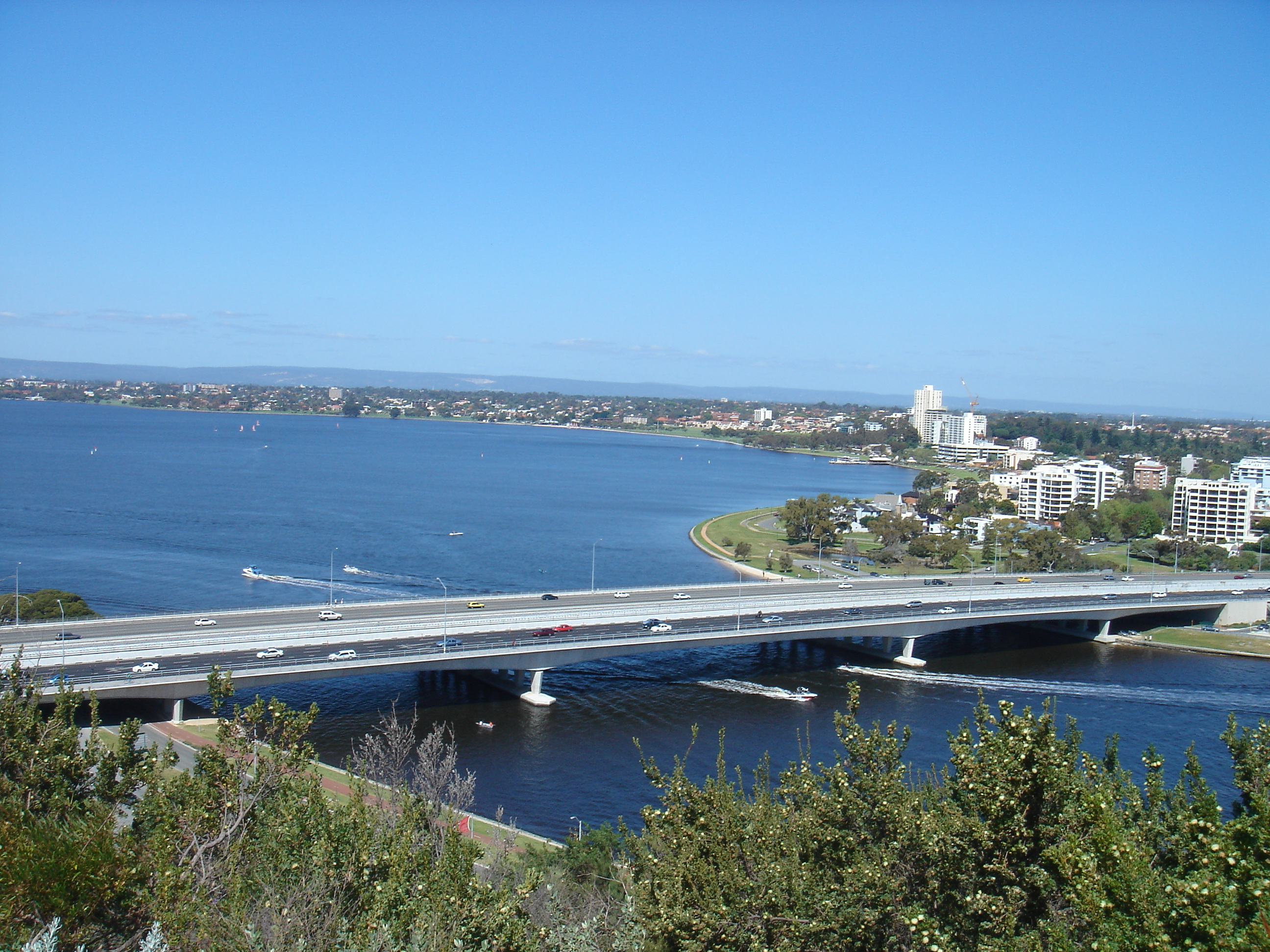 Aerial view of Narrows Bridge, Perth, Western Australia.